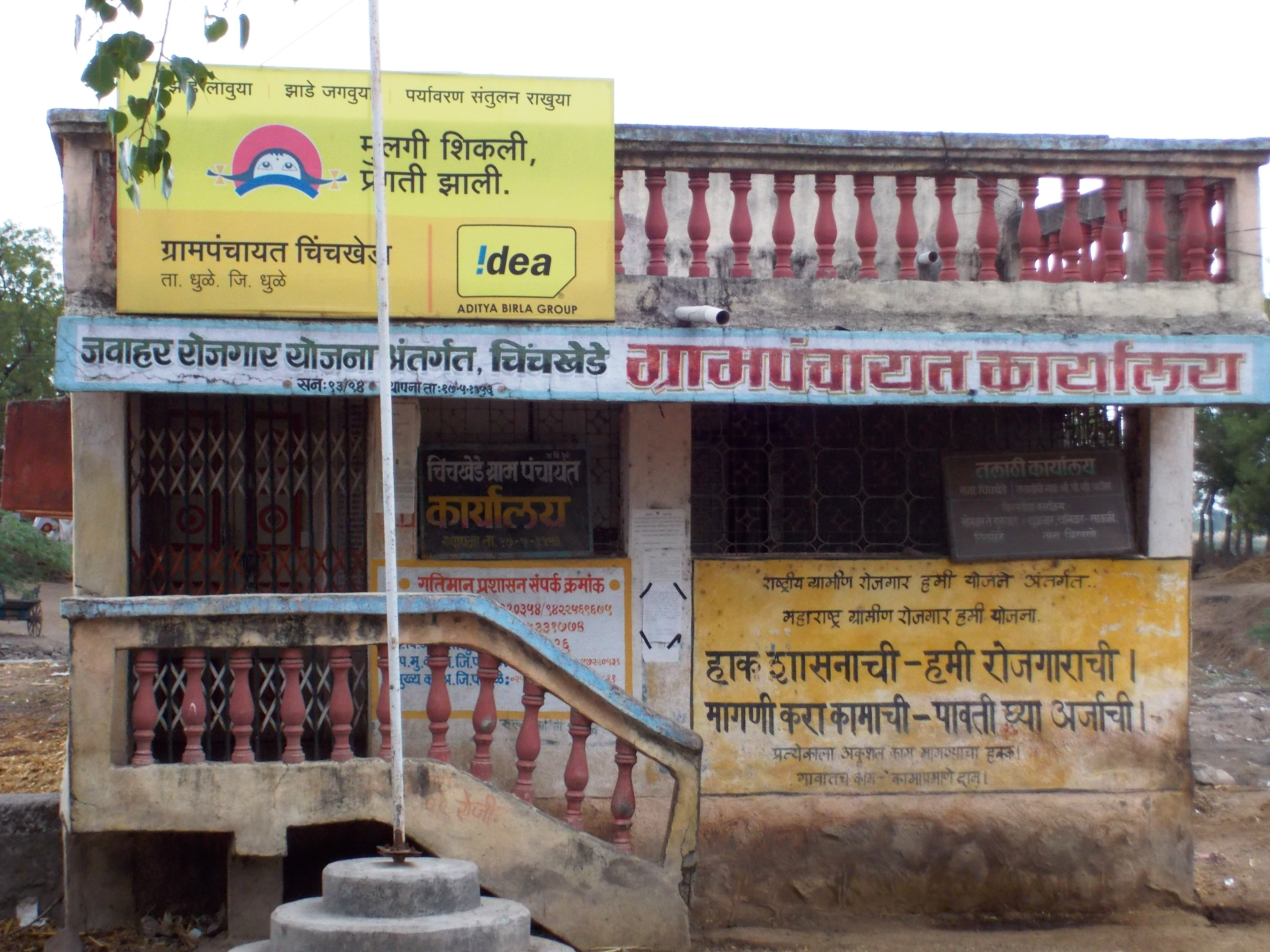 Grampanchayaft office of Chinchkhede